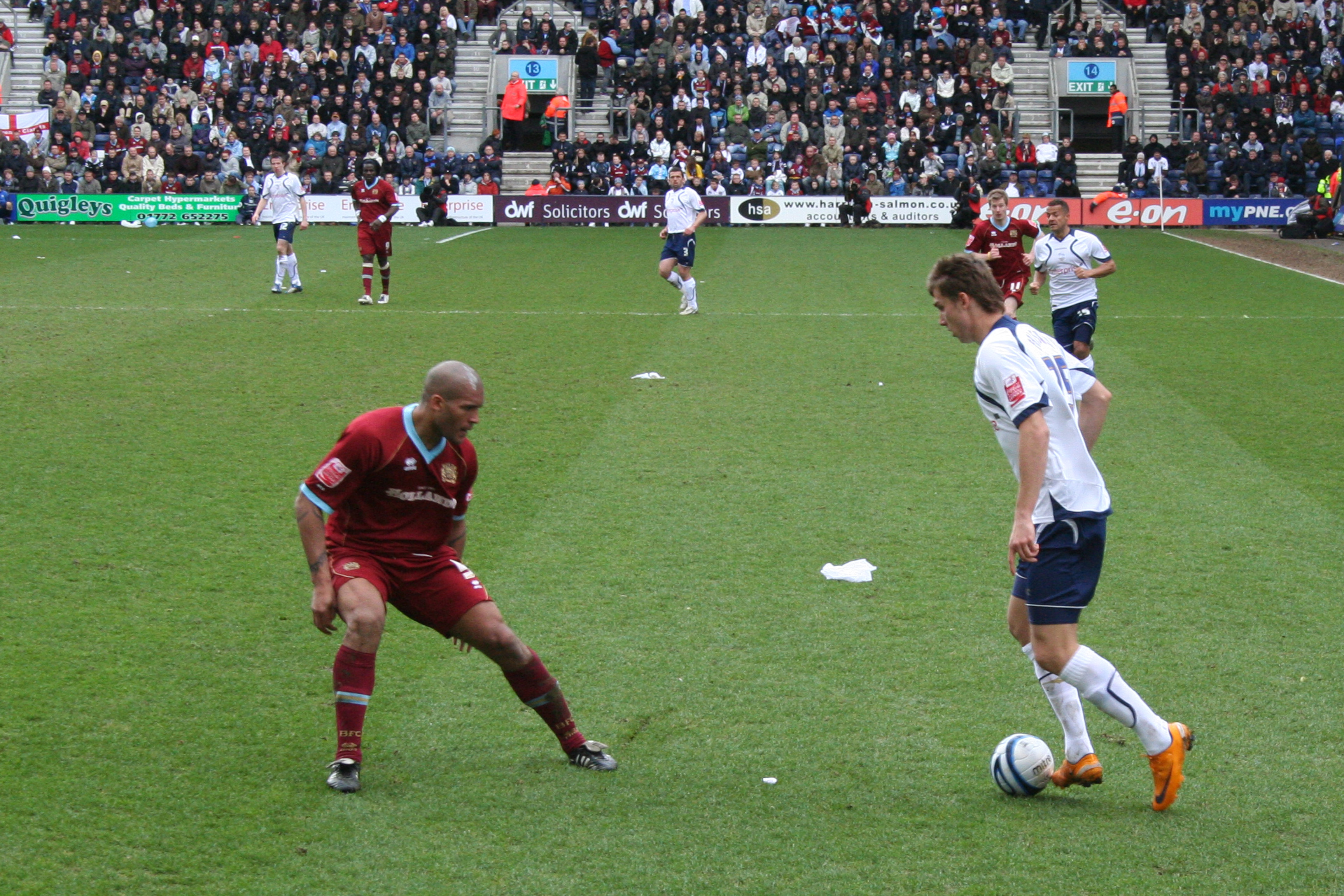 Tamas Priskin of Preston North End tries to take the ball past Clarke Carlisle of Burnley